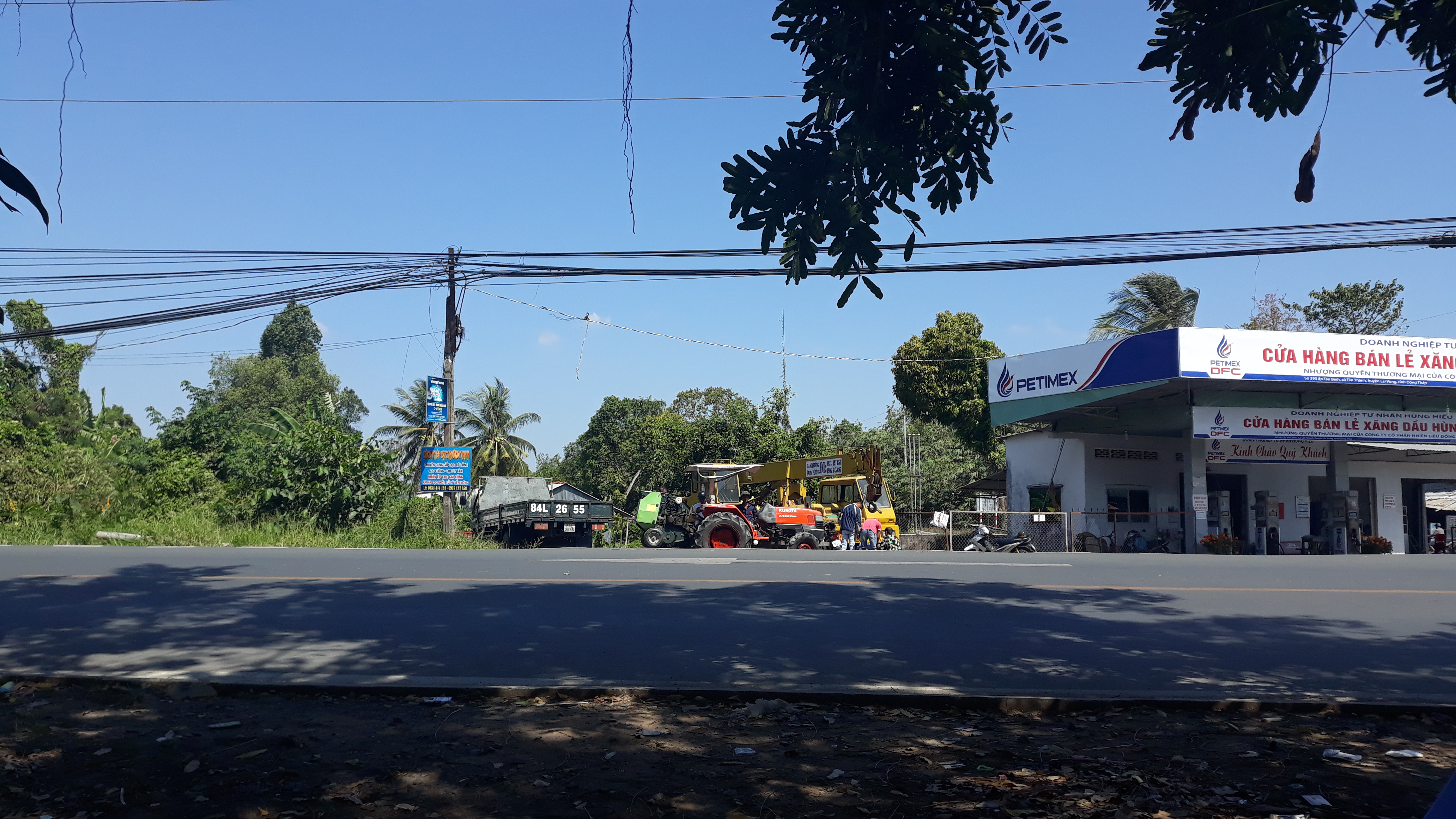 Rach Dau fork, Ngo Gia Tu street or Highway 54, Tan Thanh town, Lai Vung Dustrict, Dong Tháp province